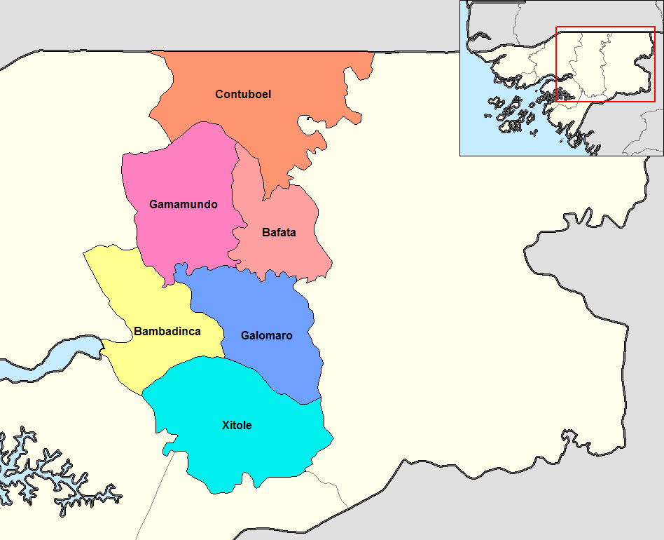 Map of the sectors of Bafata region in Guinea-Bissau. Created by Rarelibra 13:47, 14 September 2006 (UTC) for public domain use, using MapInfo Professional v8.5 and various mapping resources.